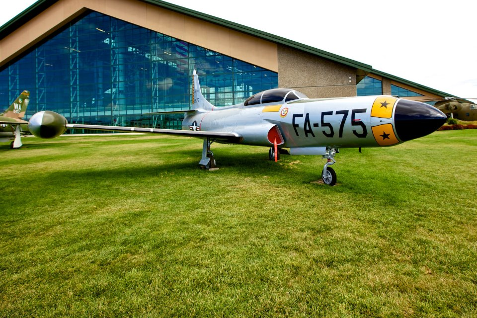 F-94C Starfire, s/n 51-13575, is on display at the Evergreen Aviation & Space Museum in McMinnville, Oregon. It was previously on display at the New England Air Museum in Windsor Locks, Connecticut and moved to Evergreen in 2010.